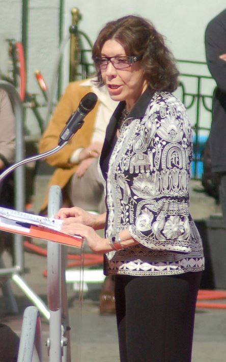 Lily Tomlin at a ceremony for Jane Fonda to have her hand and footprints inducted in front of Chinese Theatre.